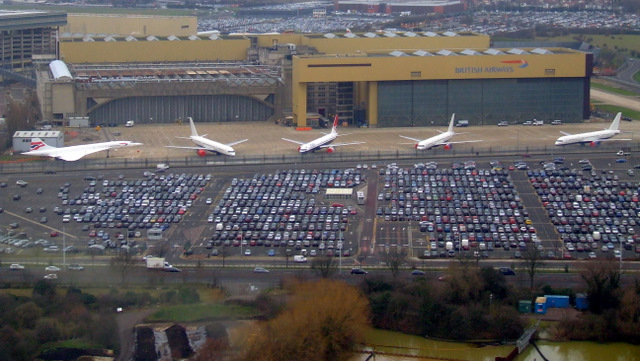 British Airways hangar, Heathrow Airport